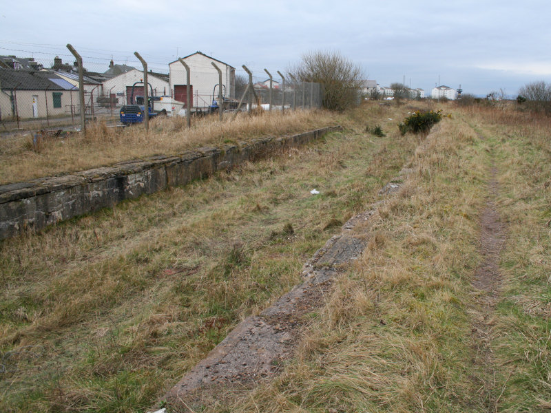 Ardrossan North railway station looking south towards Montgomerie Pier.